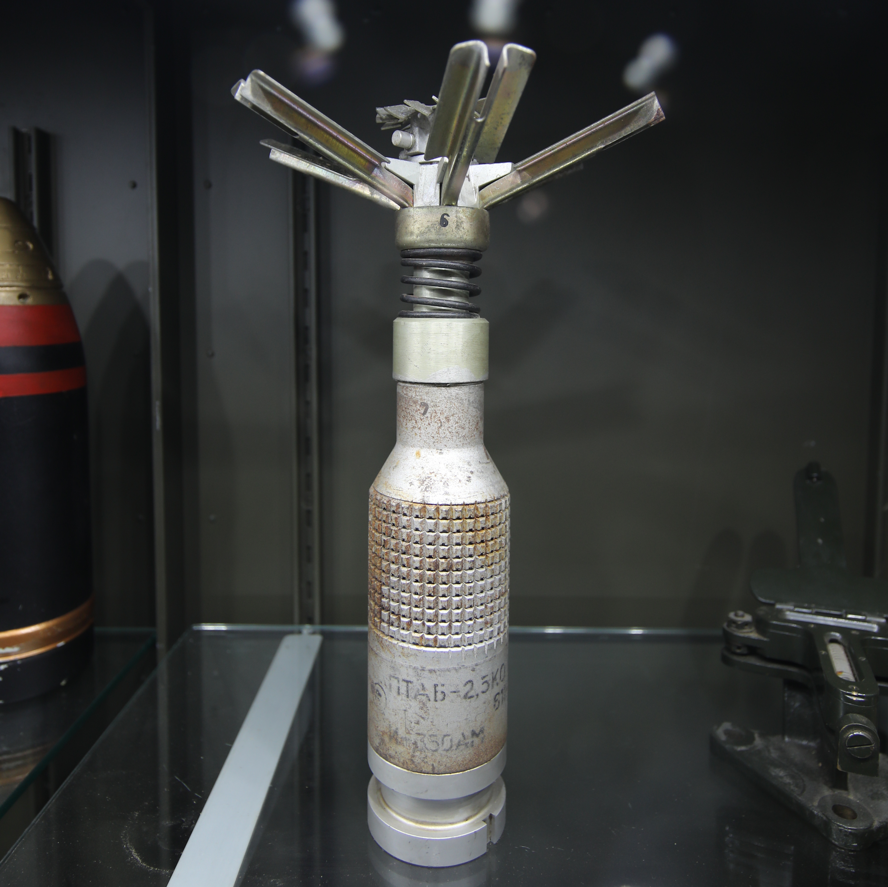 Photo of a PTAB shaped charge bomb